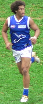 Joshua Gibson playing for the Kangaroos during the 2006 AFL Season